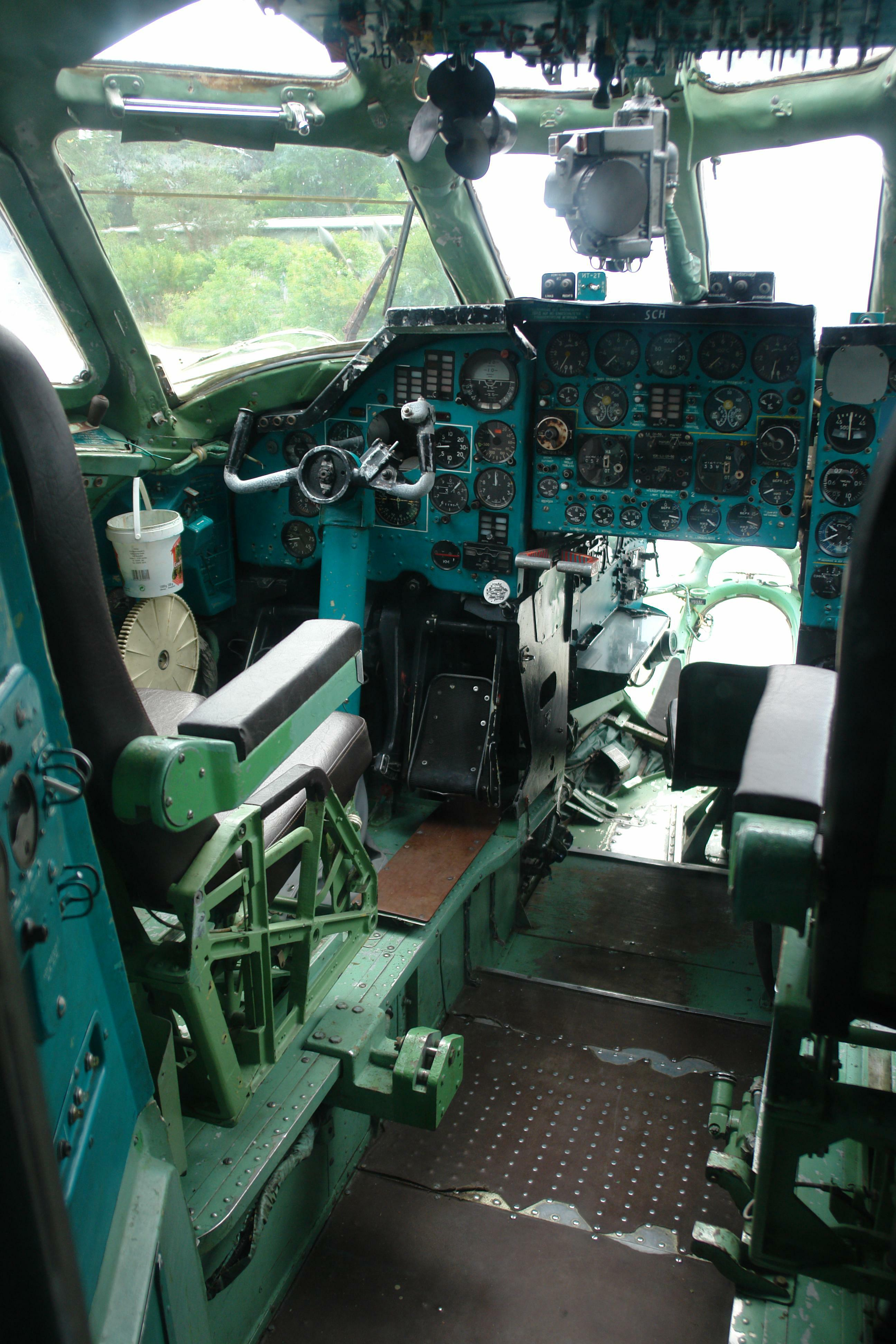 Cockpit of a TU 134